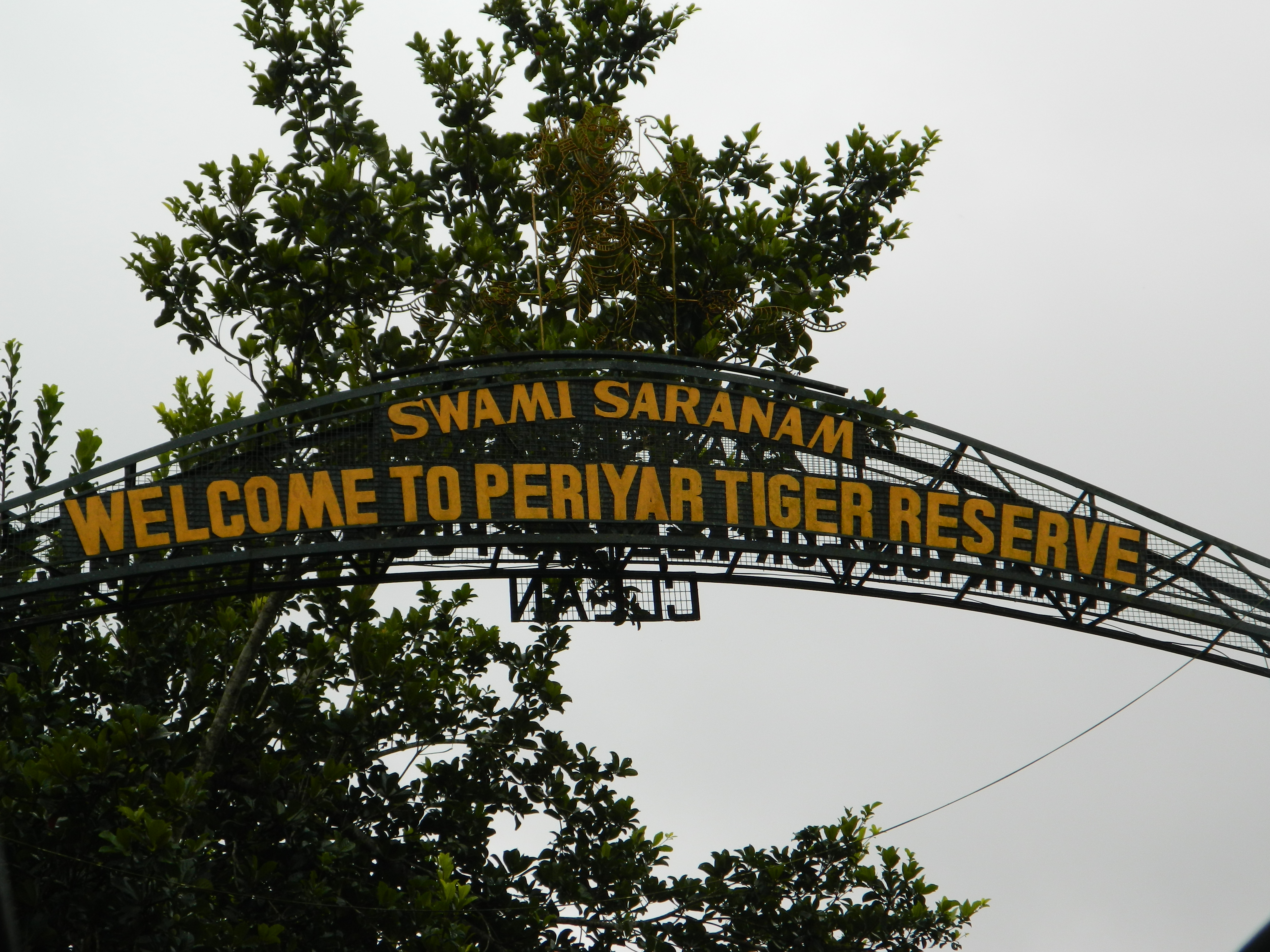 Periyar Tiger Reserve is located at Thekkady, in Idukki District of Kerala